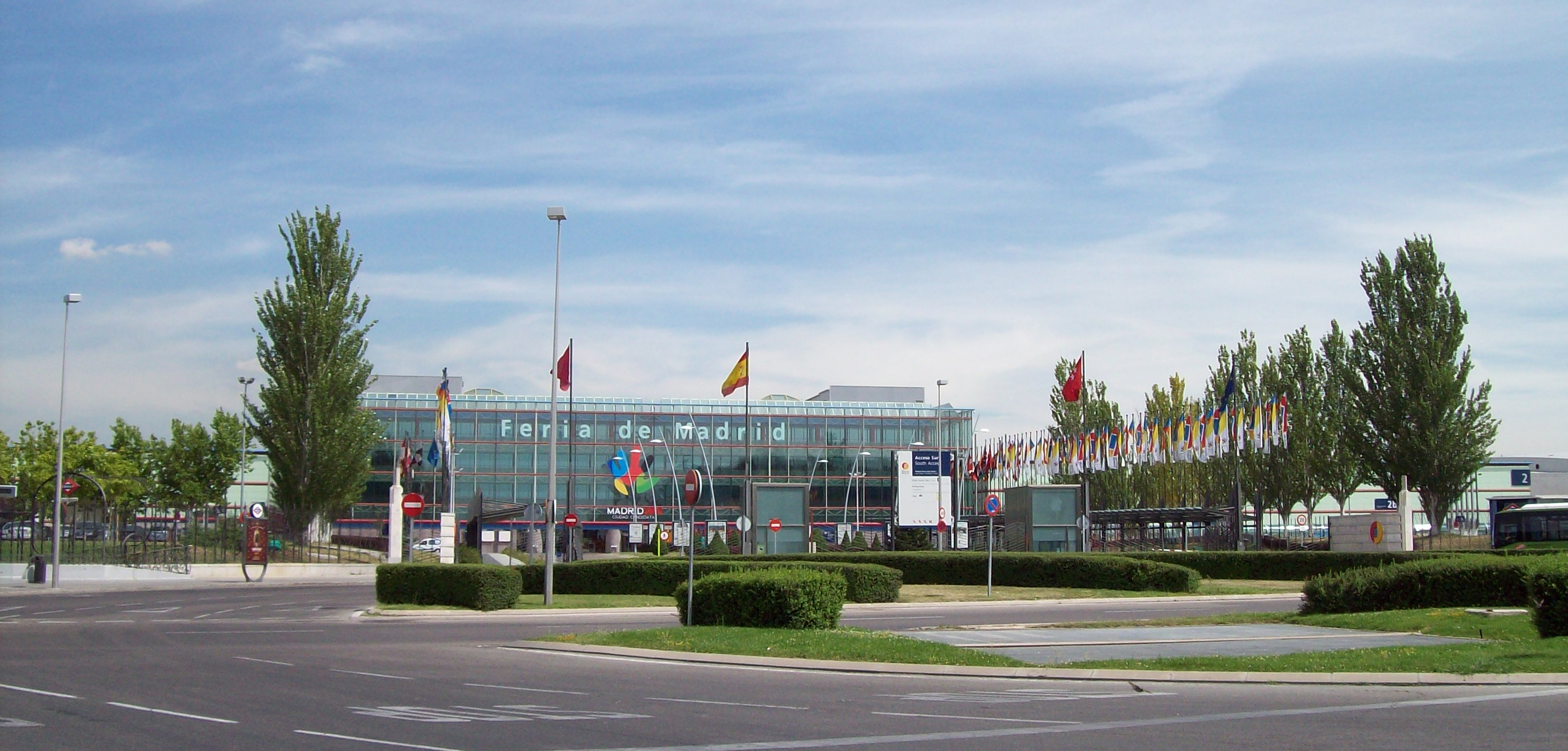 Entrance to IFEMA's installations in Campo de las Naciones (Madrid, Spain).